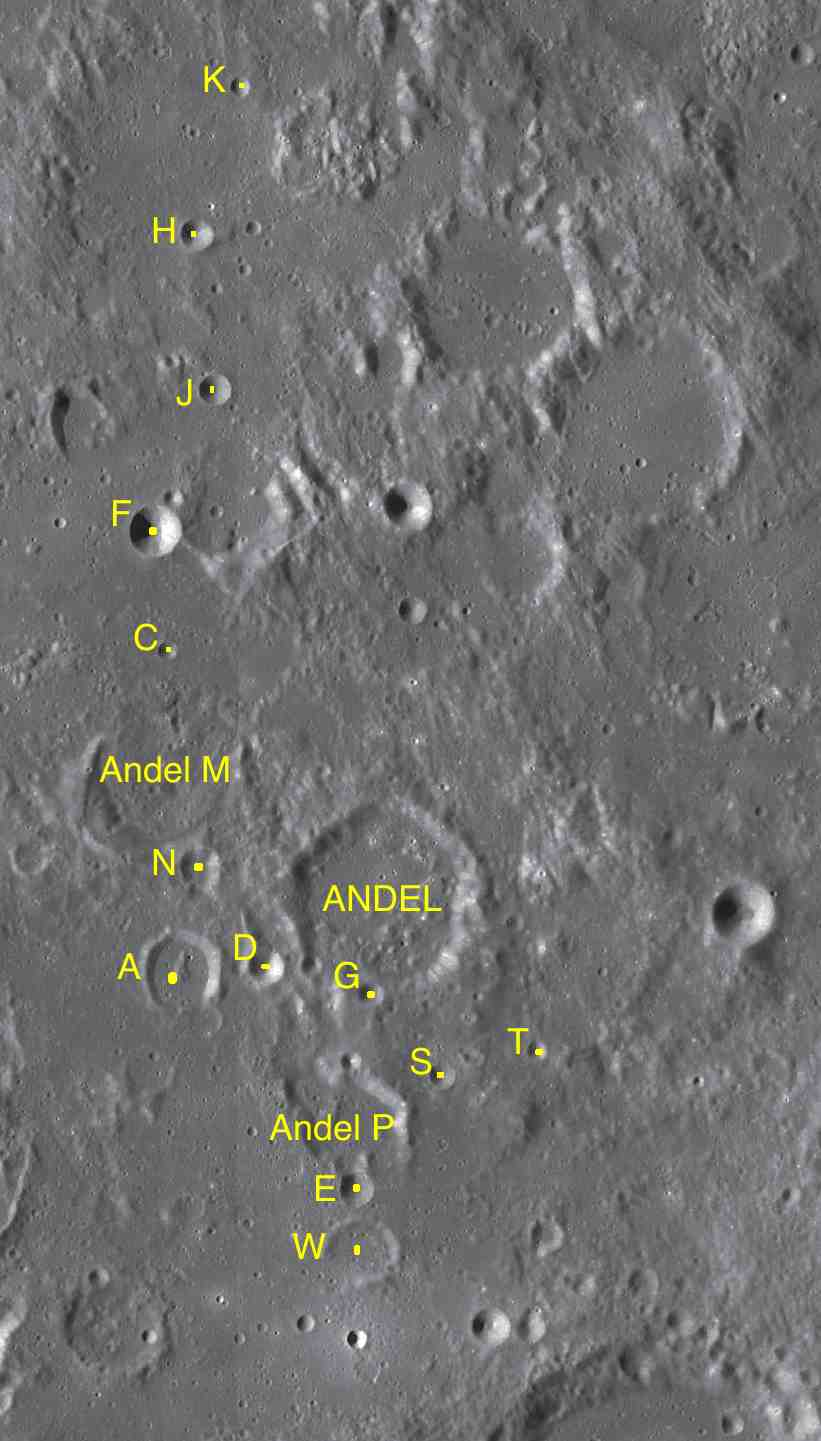 Part of the chart LAC-78 used for the presentation